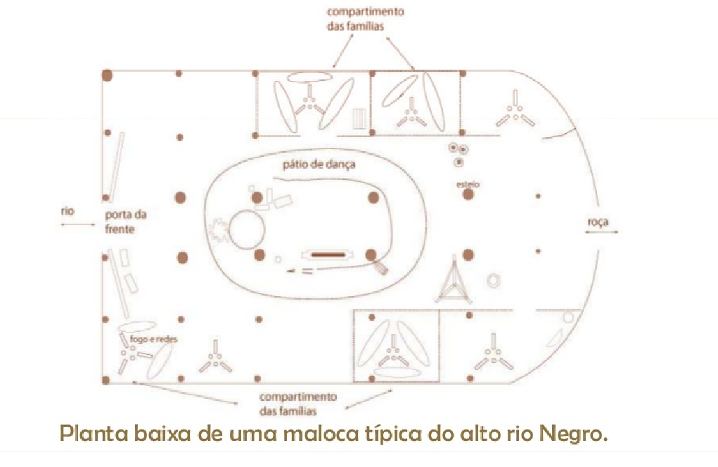 Planta baixa maloca